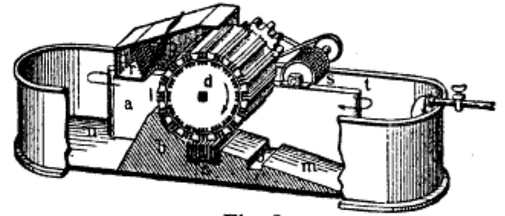 A Hollander beaters used in paper production for cutting the pulp's fibres into correct size.